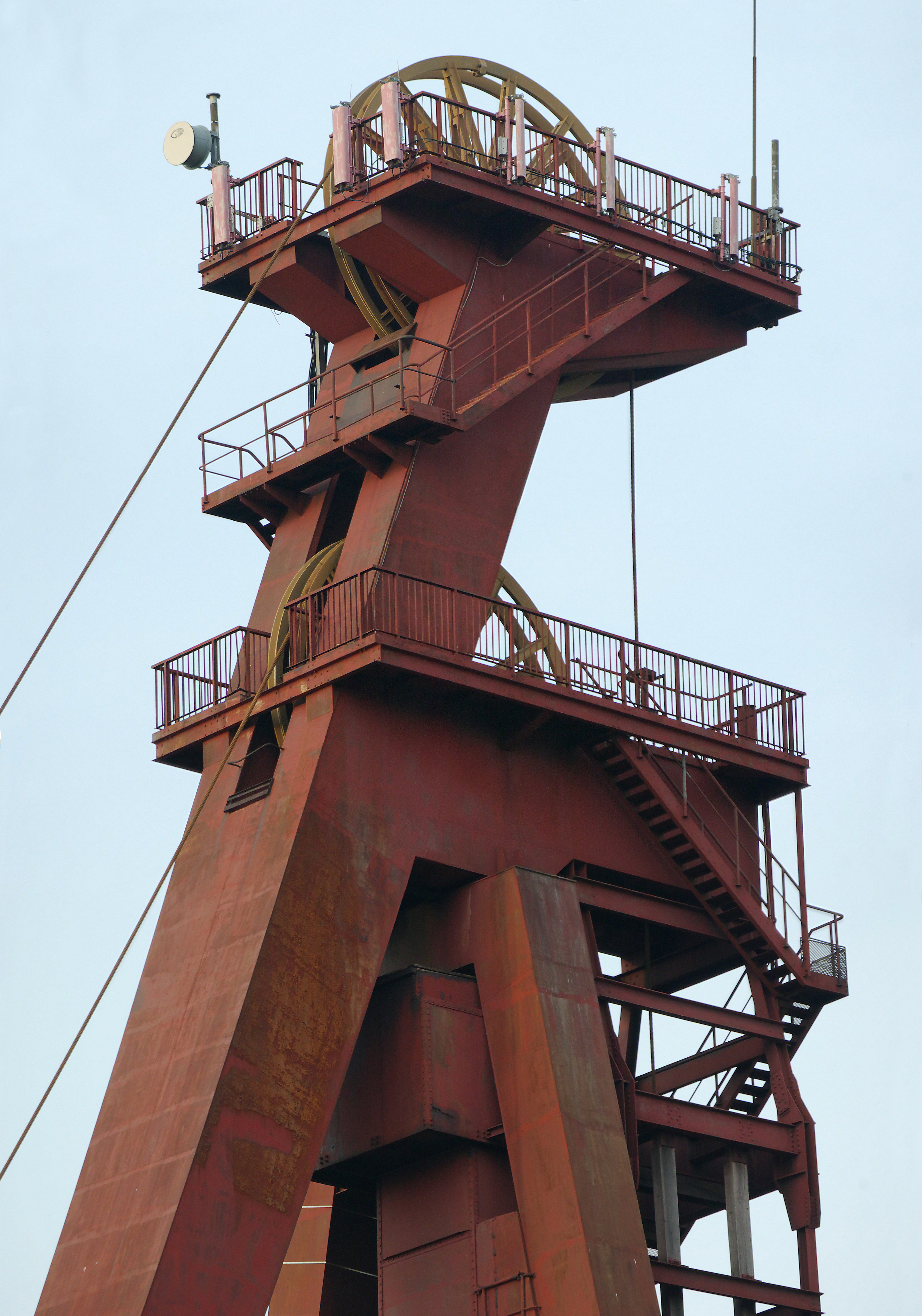 "Monopol", closed coal mine in Kamen, Germany near Dortmund. There were two shafts named "Grillo 1" and "Grillo 2". Only one has been kept for museal purposes.